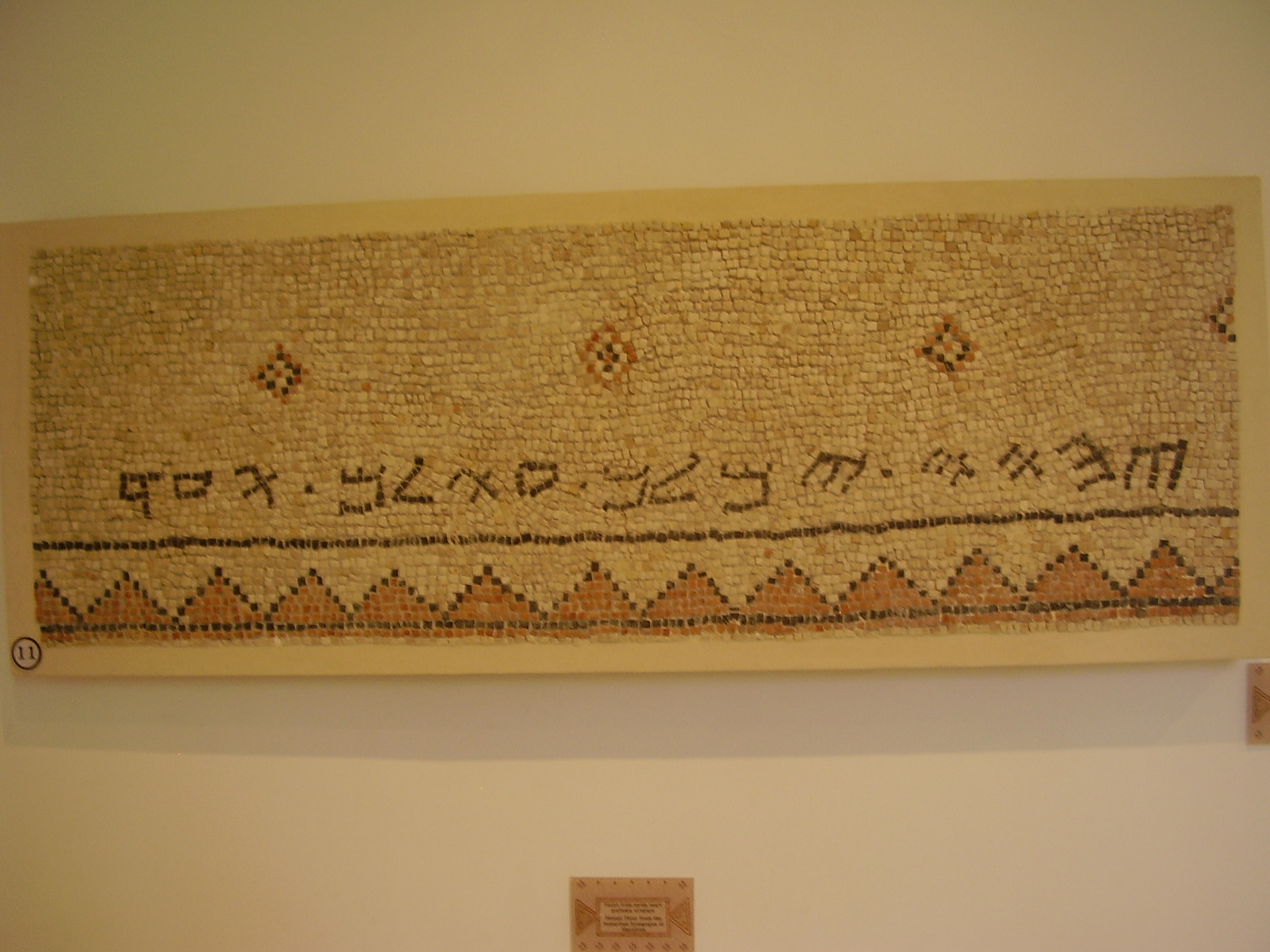 Samaritan synagogue mosaic in Sha'albim